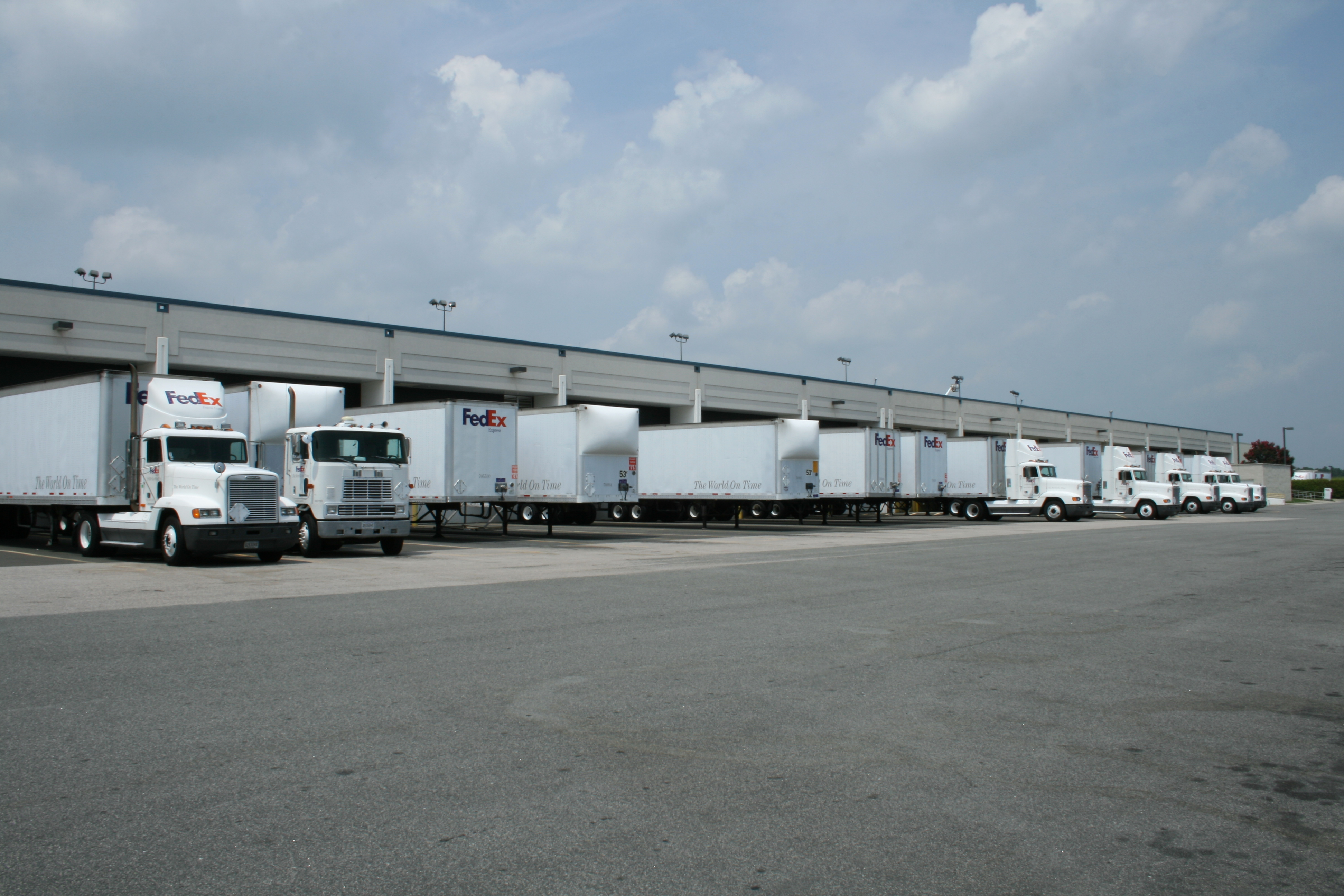 Trucks docked at the FedEx cargo terminal at the Raleigh-Durham International Airport.